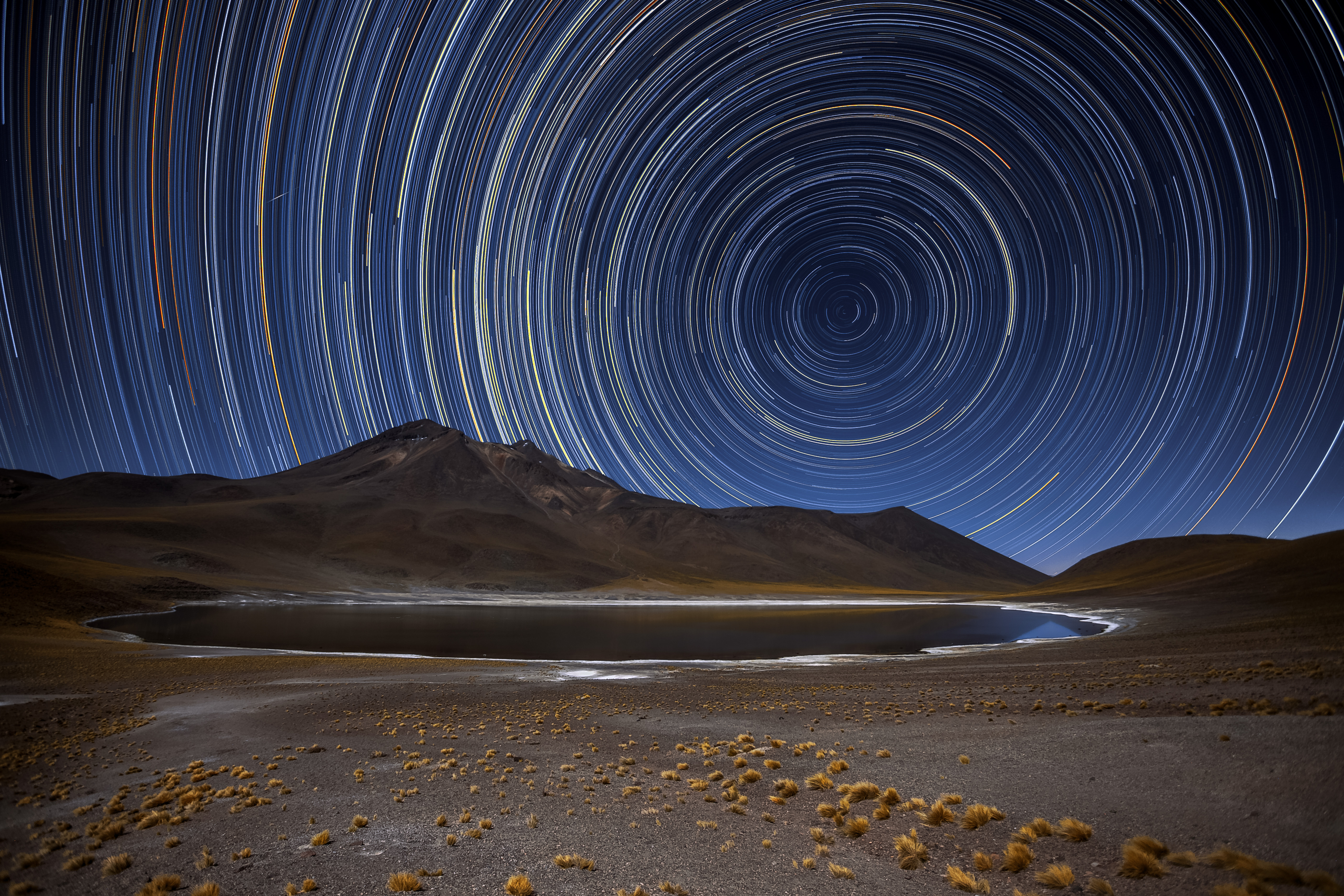 Science and art unite in this beautiful photograph, taken in Chile’s Atacama Desert by ESO Photo Ambassador Adhemar M. Duro Jr. To create this visual masterpiece Adhemar pointed his camera at the sky’s south pole, the point at the centre of all the bright arcs and circles. All the stars in the night sky revolve around this point. Over a period of several hours, this motion creates star trails, with each individual star tracing out a circle on the sky. These trails display the various brightnesses and colours of each star, creating a captivating scene! Towards the top left of the image, you can see a short, bright streak of light cutting across the trails — this is caused by a meteor, burning up in a flash of light as it enters Earth’s atmosphere. The desert’s harsh and arid landscape, illuminated here by the light from the stars themselves, is the perfect place to view the night sky. Because of the location’s favourable conditions several telescopes are hosted here, including ESO’s Very Large Telescope, ESO’s Visible and Infrared Survey Telescope for Astronomy (VISTA), and the forthcoming European Extremely Large Telescope, which is currently under construction atop Cerro Armazones.